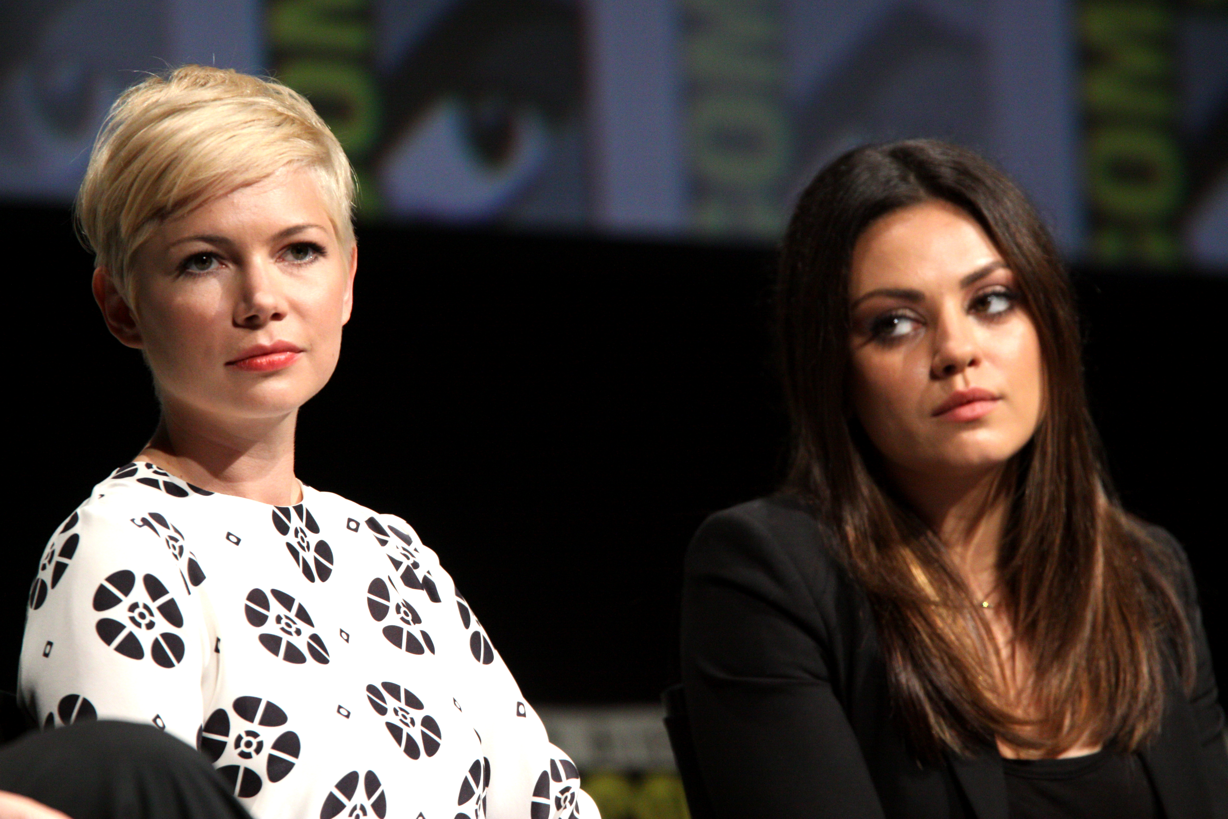 Michelle Williams & Mila Kunis speaking at the 2012 San Diego Comic-Con International in San Diego, California.